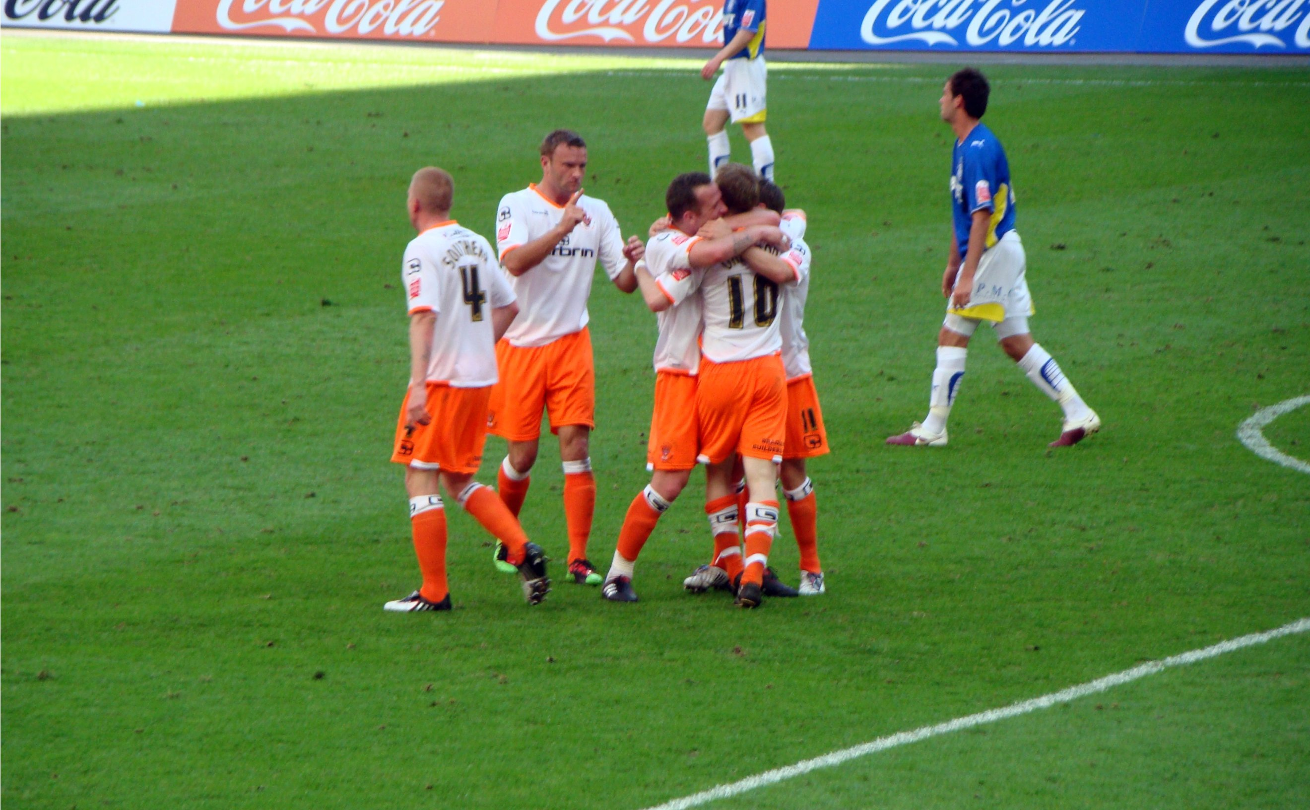 22/05/10 Cardiff V Blackpool, Championship Final, Wembley, England